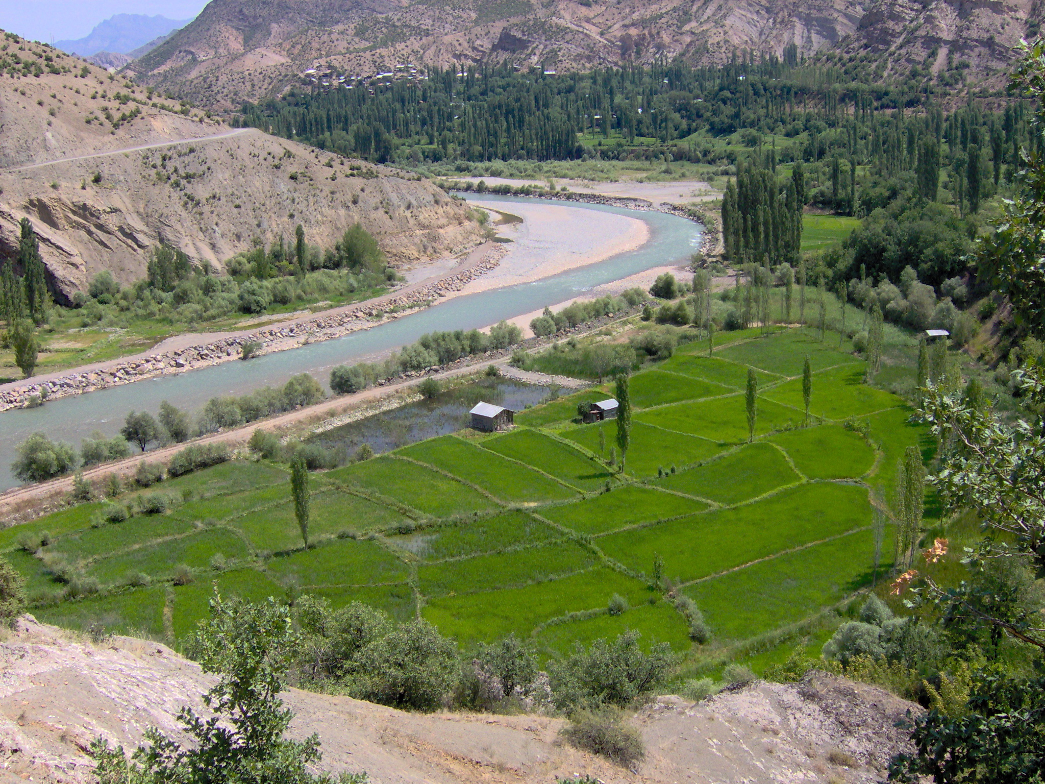 The Çoruh river beside rice fields, Turkey